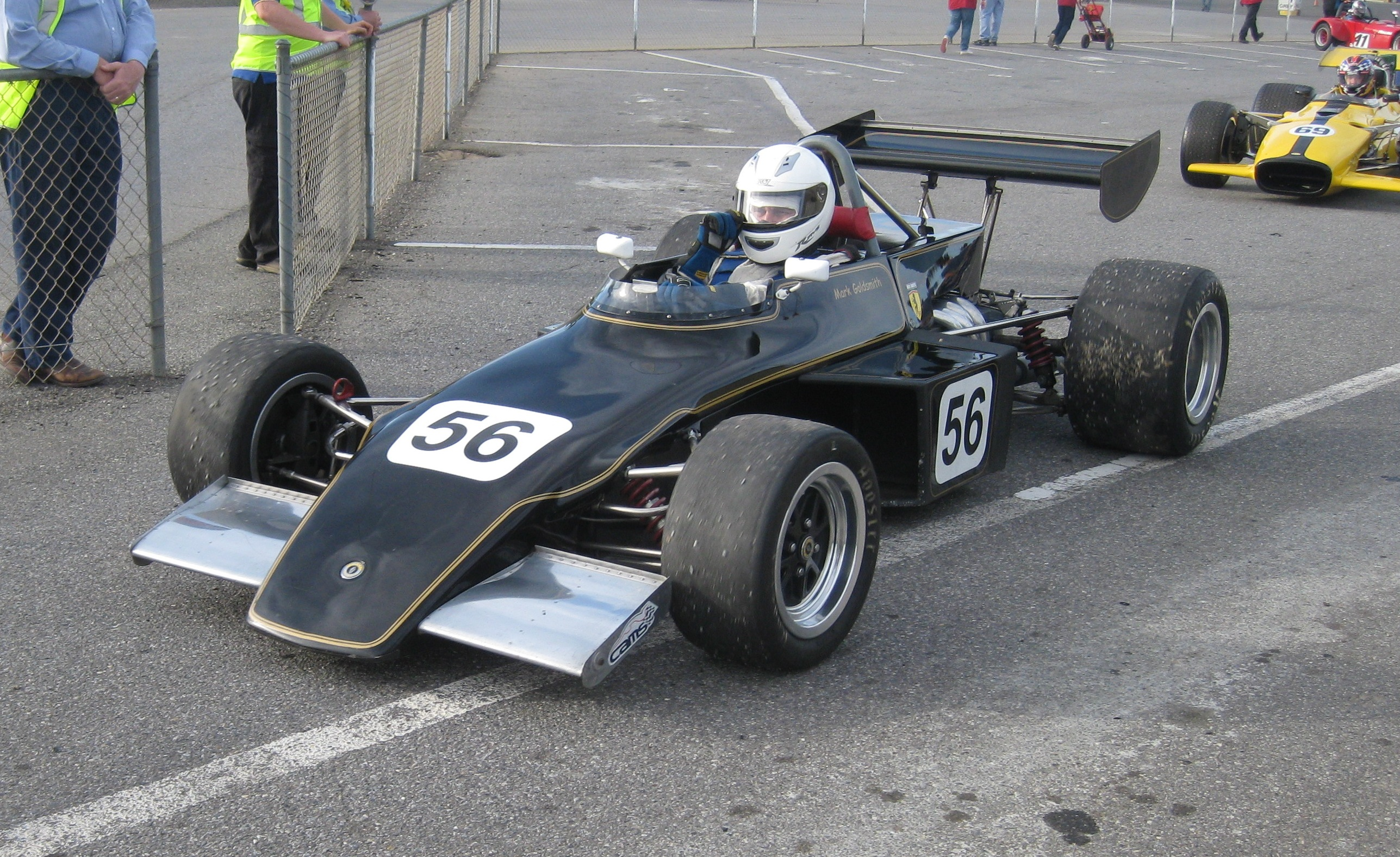 The Elfin 622 of Mark Goldsmith at Mallala Motor Sport Park on 7 April 2012